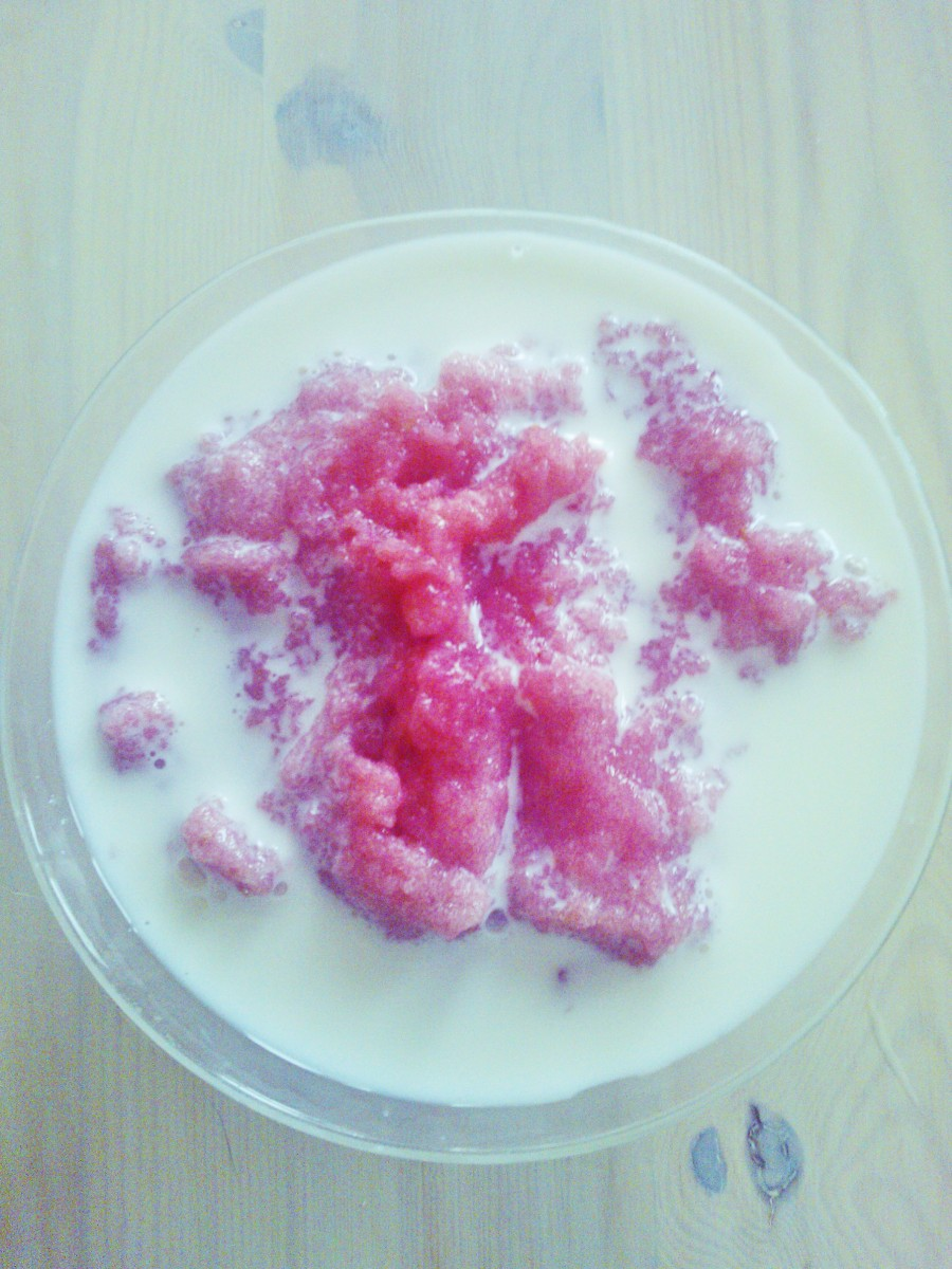 Traditional Finnish dessert